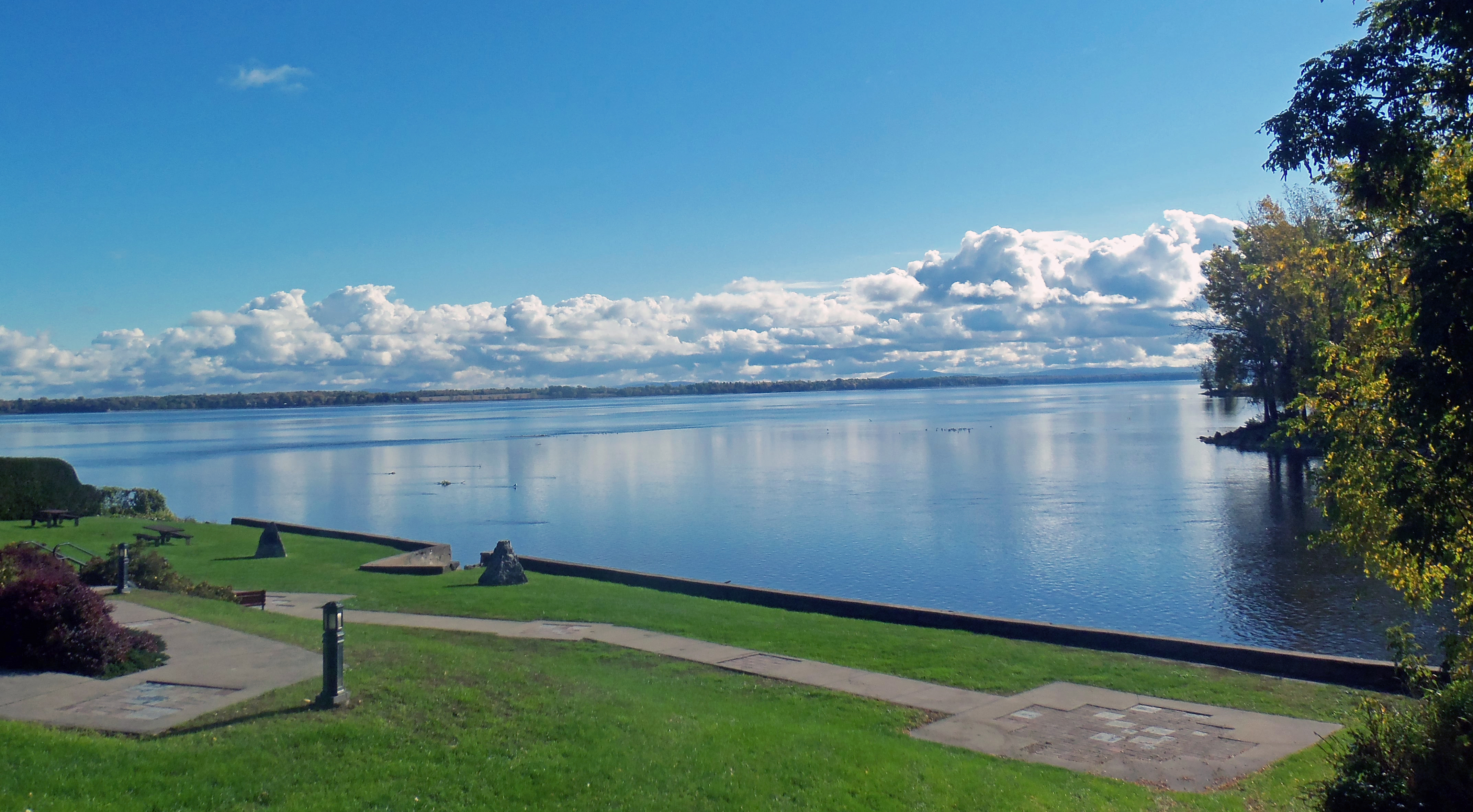 Plattsburgh Bay, in Plattsburgh, NY, USA, where the Saranac River empties into Lake Champlain. Designated a U.S. National Historic Landmark as the site of the naval engagement in the Battle of Plattsburgh during the War of 1812. Land in background is in Vermont.